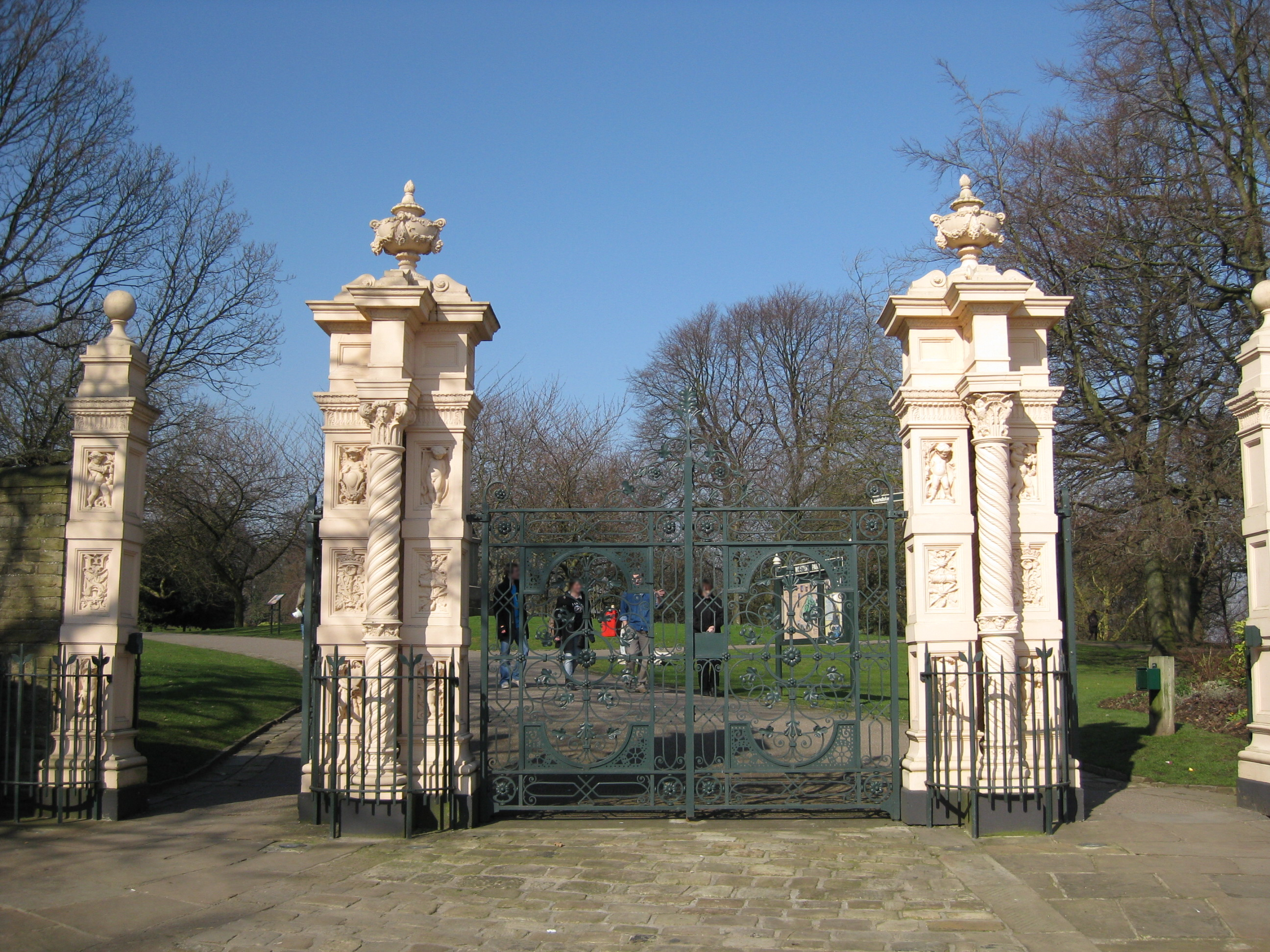 Gates to Weston Park, Sheffield.